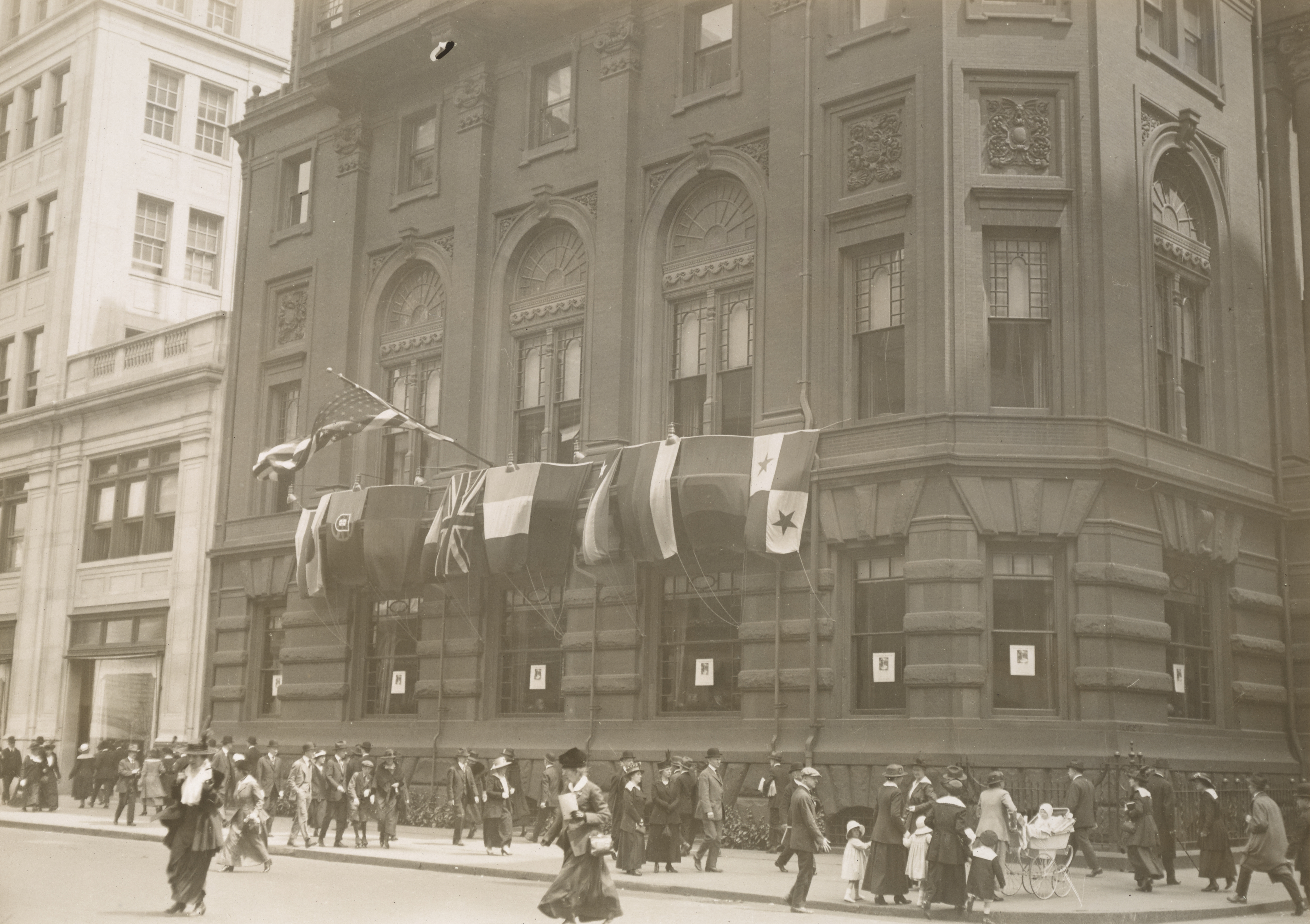 Scope and content: Photographer: International Film Service